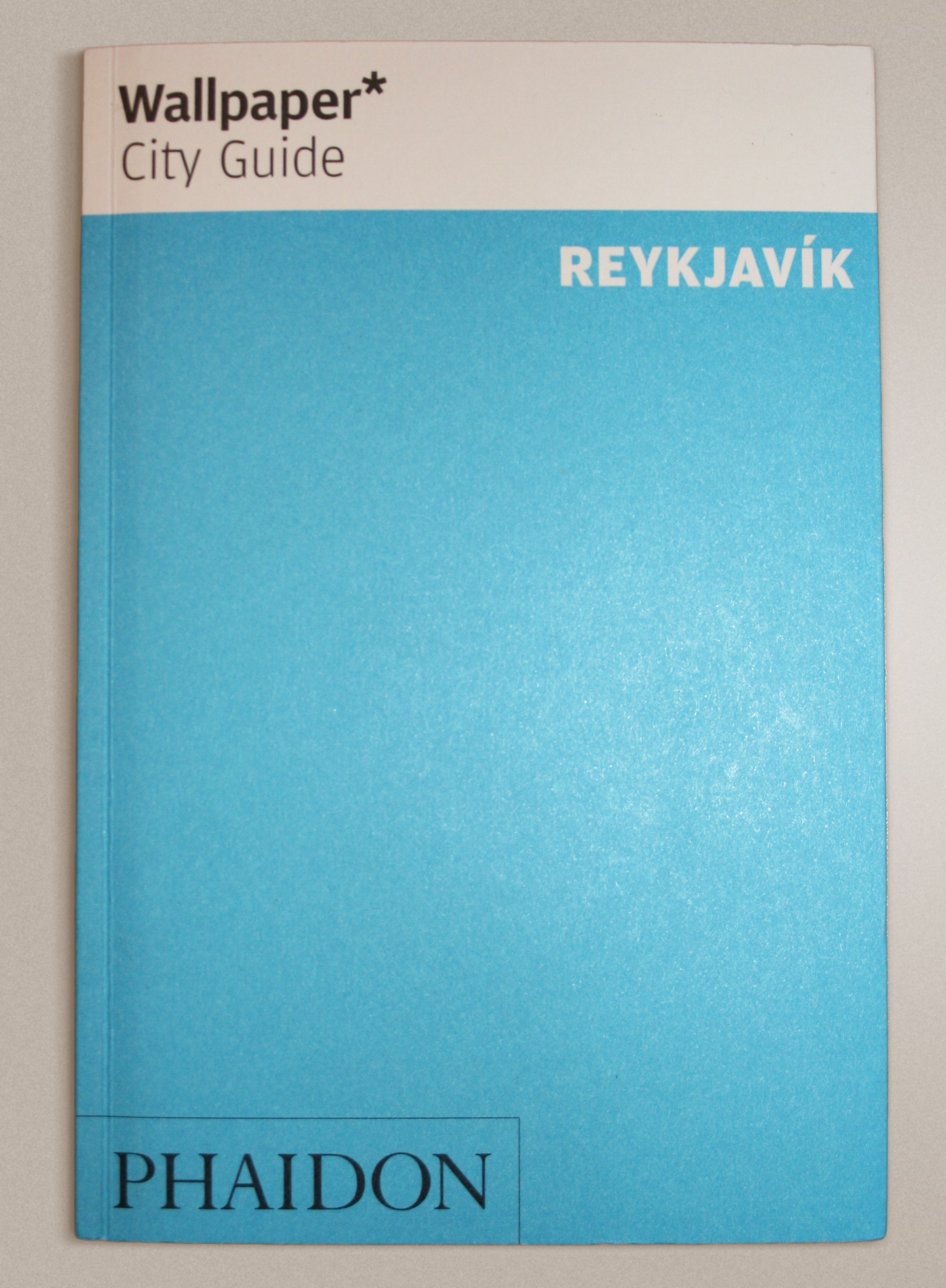 Photo of the Wallpaper* City Guide to Reykjavík. Cropped from original self-made photo using Photoshop.